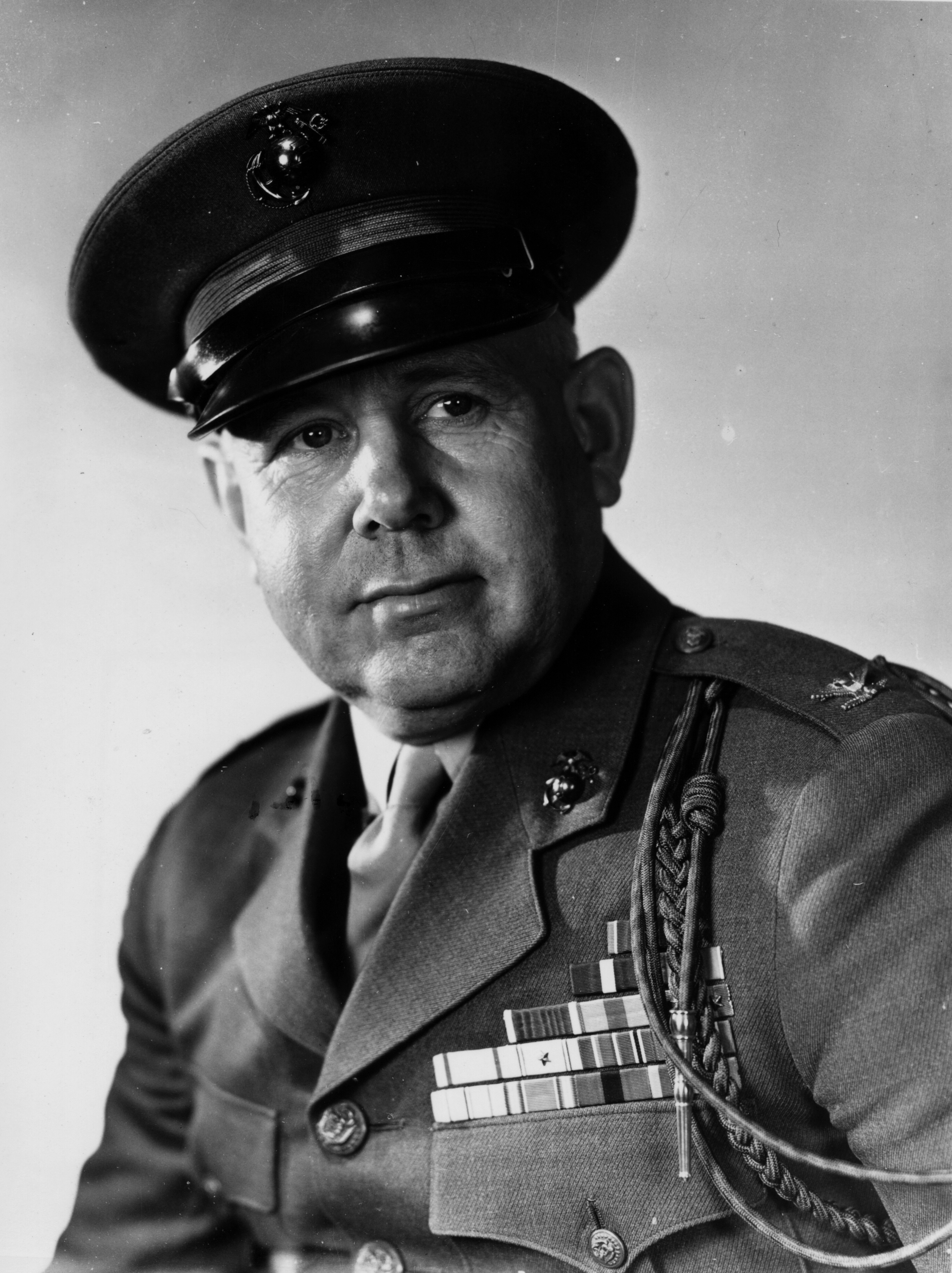 Charles Ira Murray (May 4, 1896 - September 24, 1977) was a highly decorated officer of the United States Marine Corps with the rank of Brigadier general, who distinguished himself while served with 6th Marine Regiment during World War I. Murray later served as Deputy Commander with the military staff on Guam.